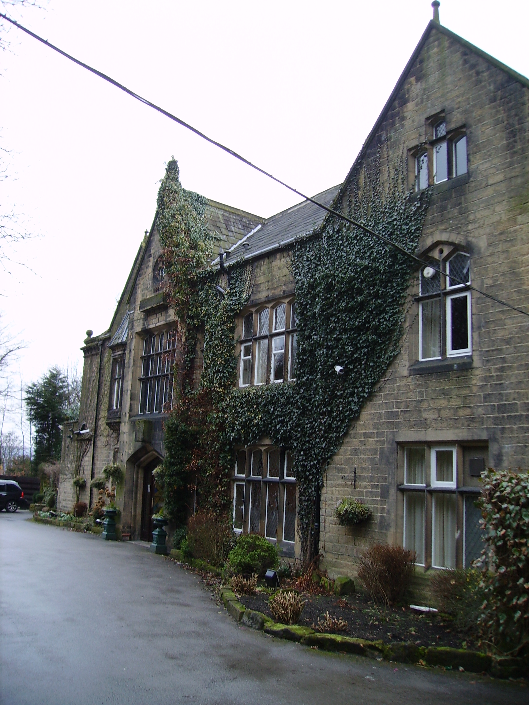 Oakwood Hall, Bingley, West Yorkshire, England. Important furnishing by William Burges, Edward Burne-Jones and William Morris